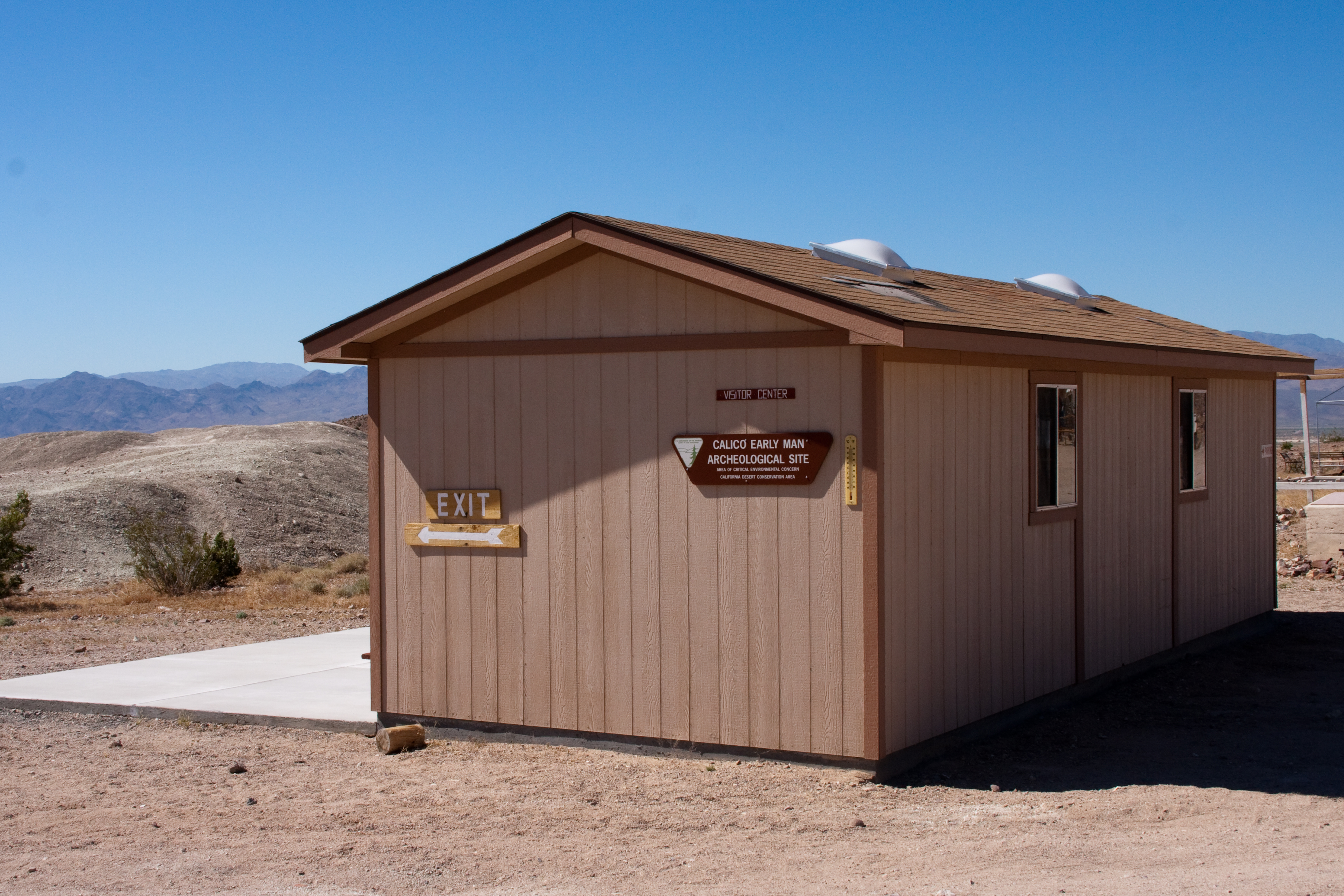 Visitor center at the Calico Early Man Site, a Paleoindian archaeological site. Located in the Mojave Desert near Yermo and east of Barstow, in San Bernardino County, California.